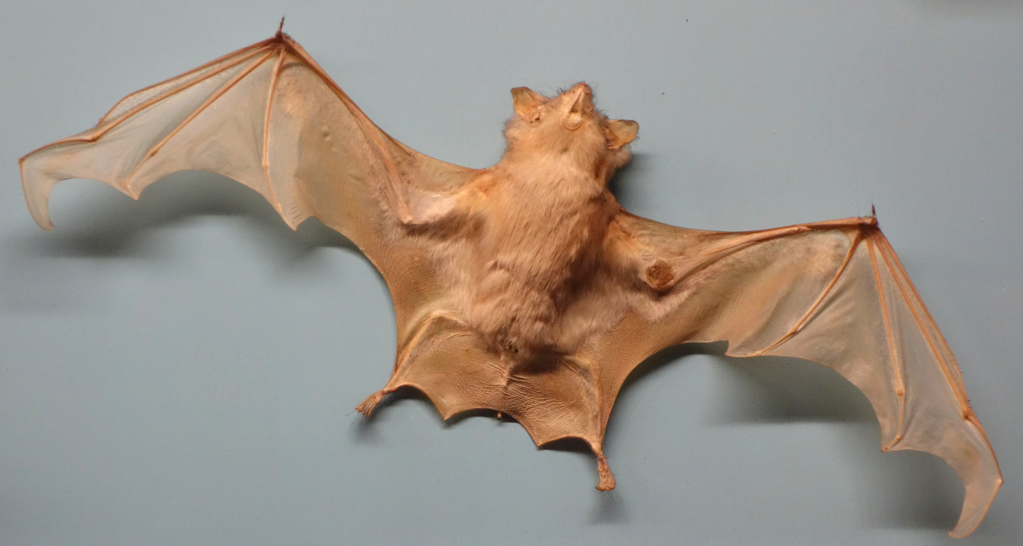 Exhibit in the Museo Civico di Storia Naturale di Genova, Via Brigata Liguria, 9, 16121, Genoa, Italy.